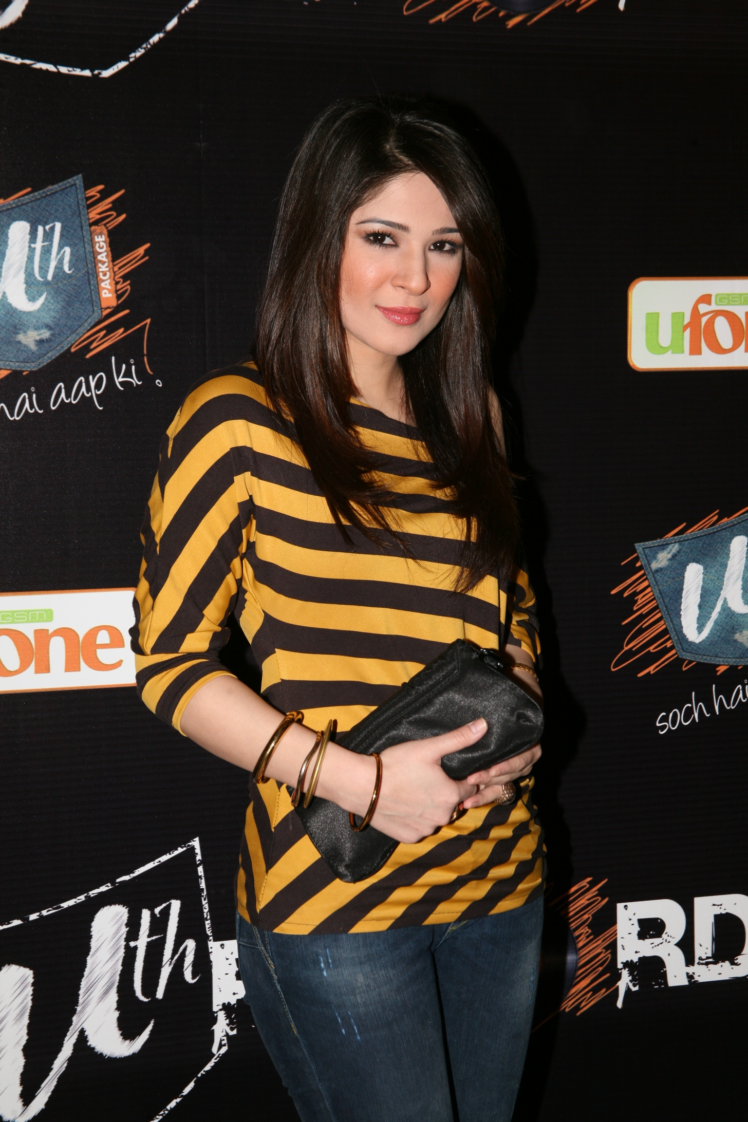 Ufone introduced Uth Records, an exciting music initiative to help young Pakistani musicians develop and showcase their talent professionally, at an interactive press conference. It is set to air across television and social media networks during the month of February 2011.